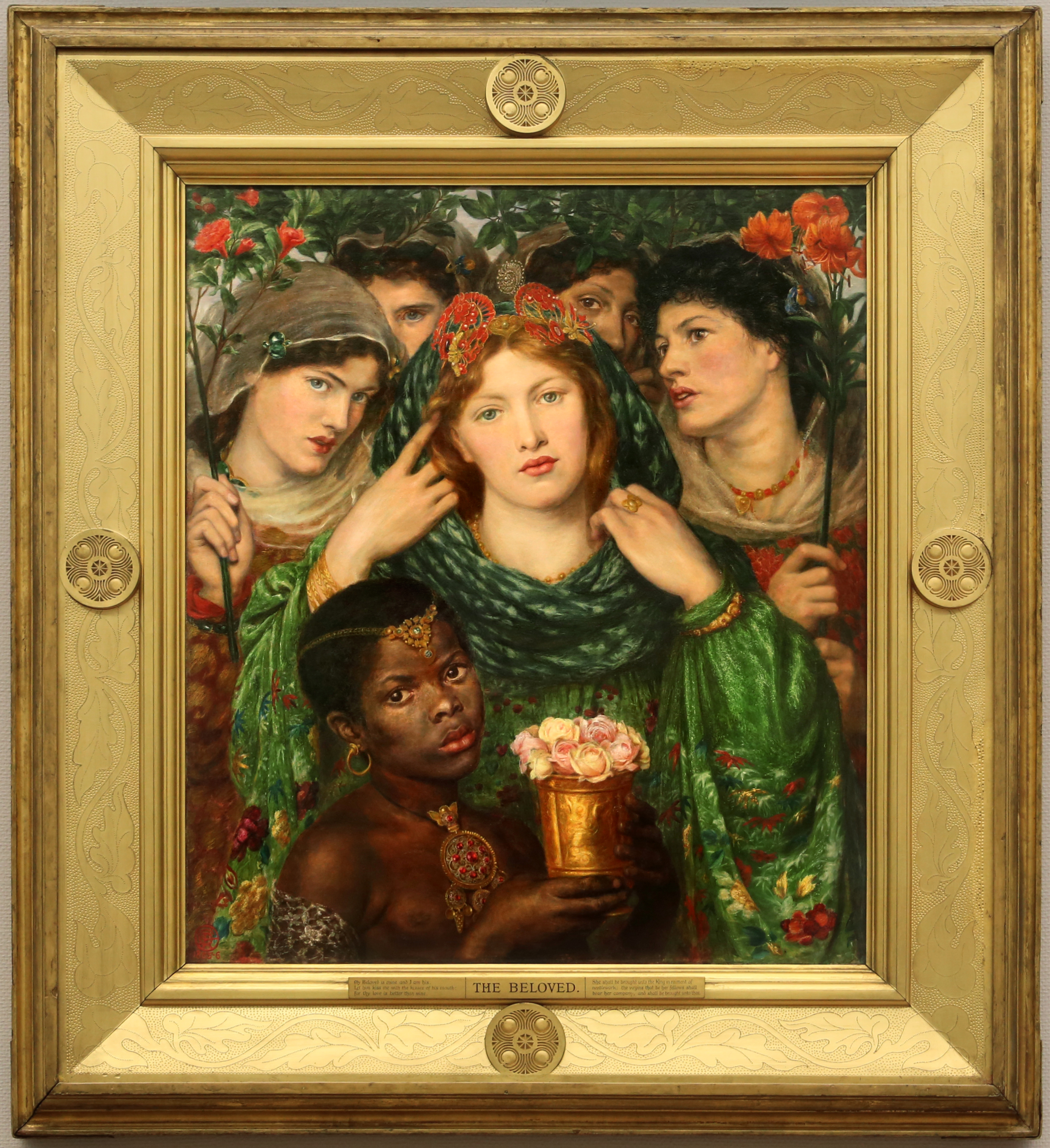 Pre-Raphaelite paintings in Tate Britain